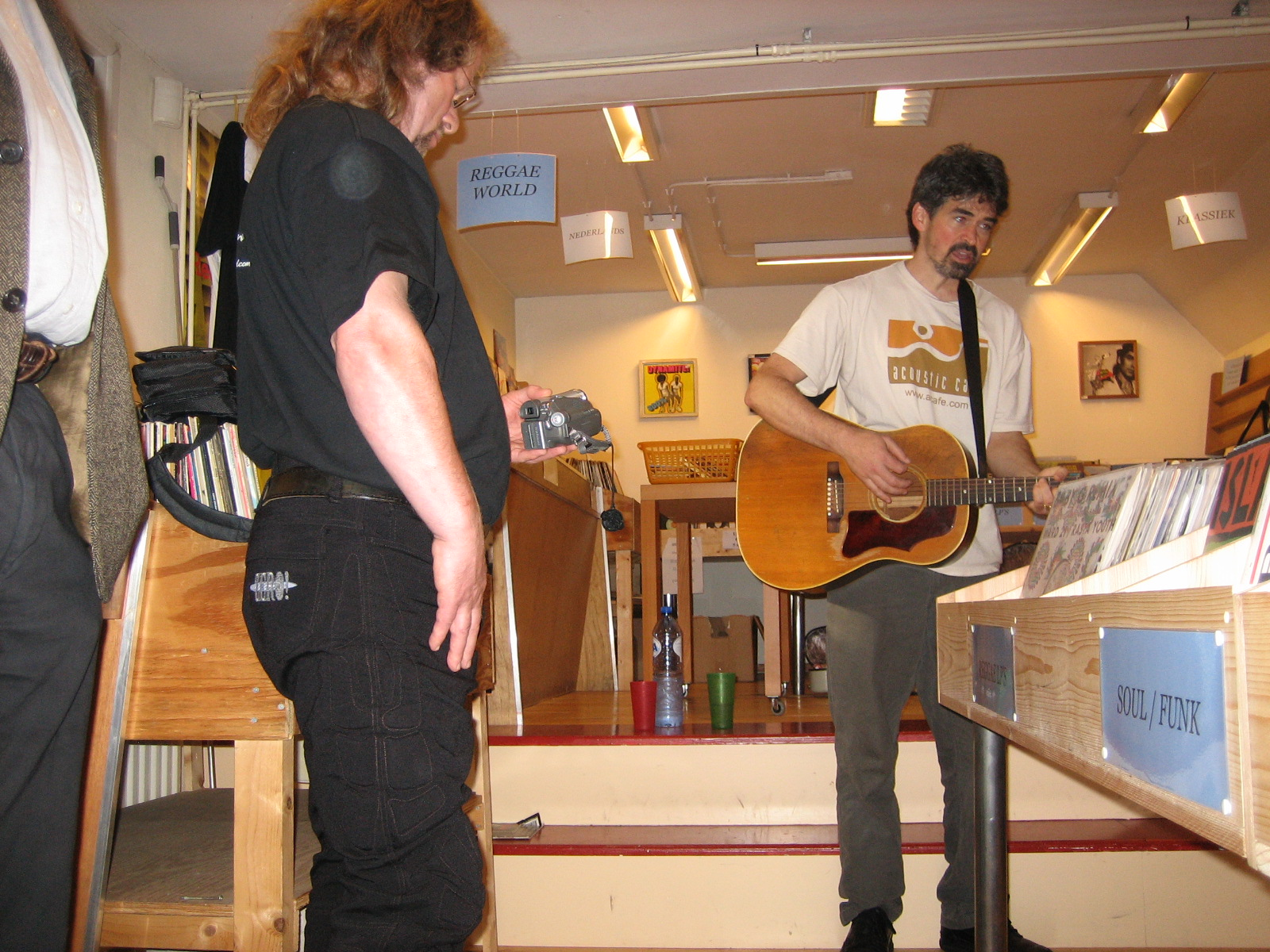 Slaid Cleaves in-store performance @ Velvet record store in Amsterdam, The Netherlands (26 september 2006)